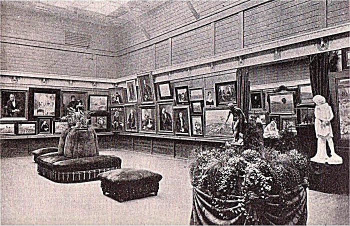 Enhanced version of Photograph of the Art Exhibition Room (Kunstudstilling) at the 1895 Copenhagen Women's Exhibition.